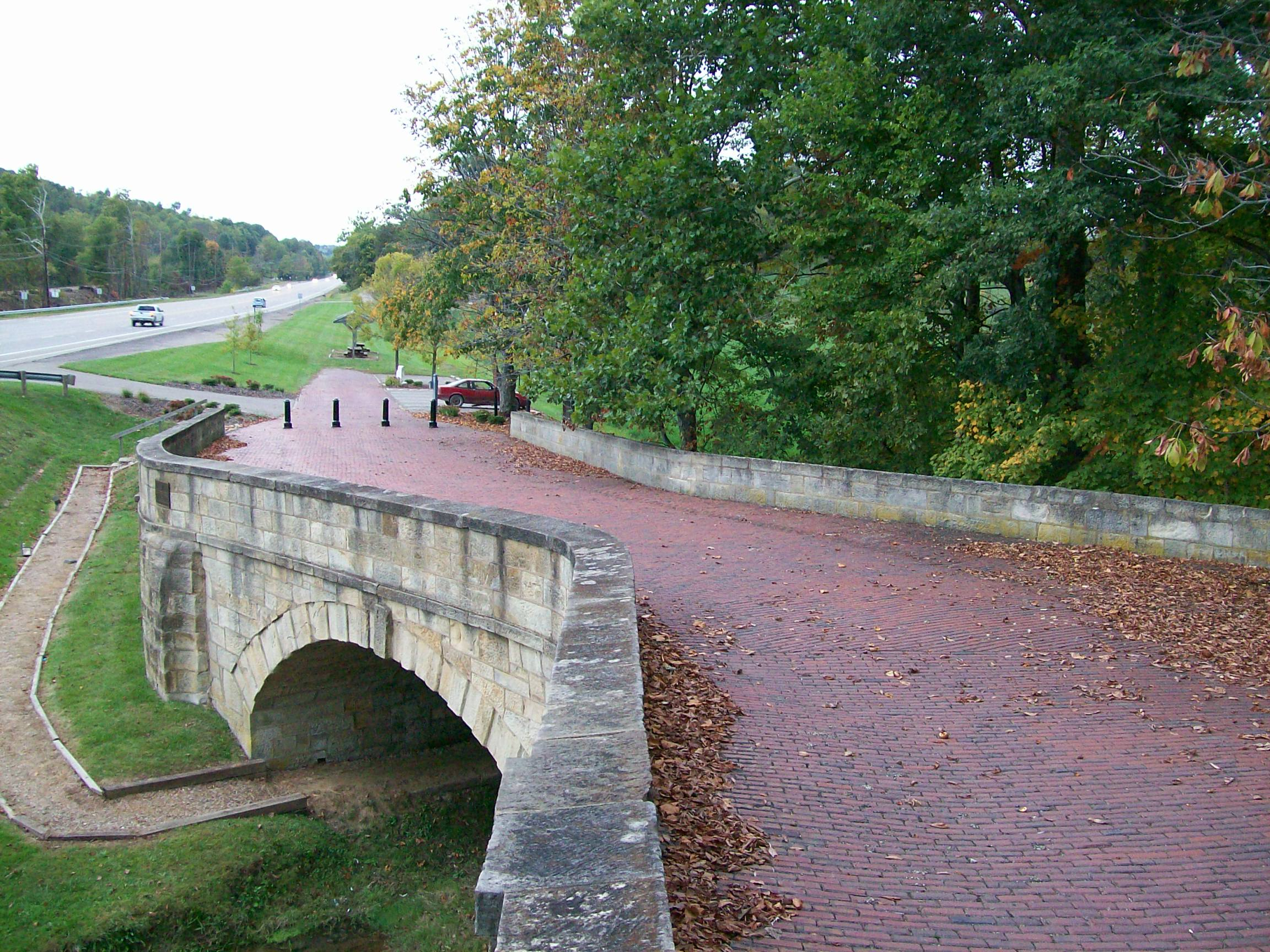 The S Bridge west of New Concord, Ohio. Listed as "S Bridge II" on the NRHP.